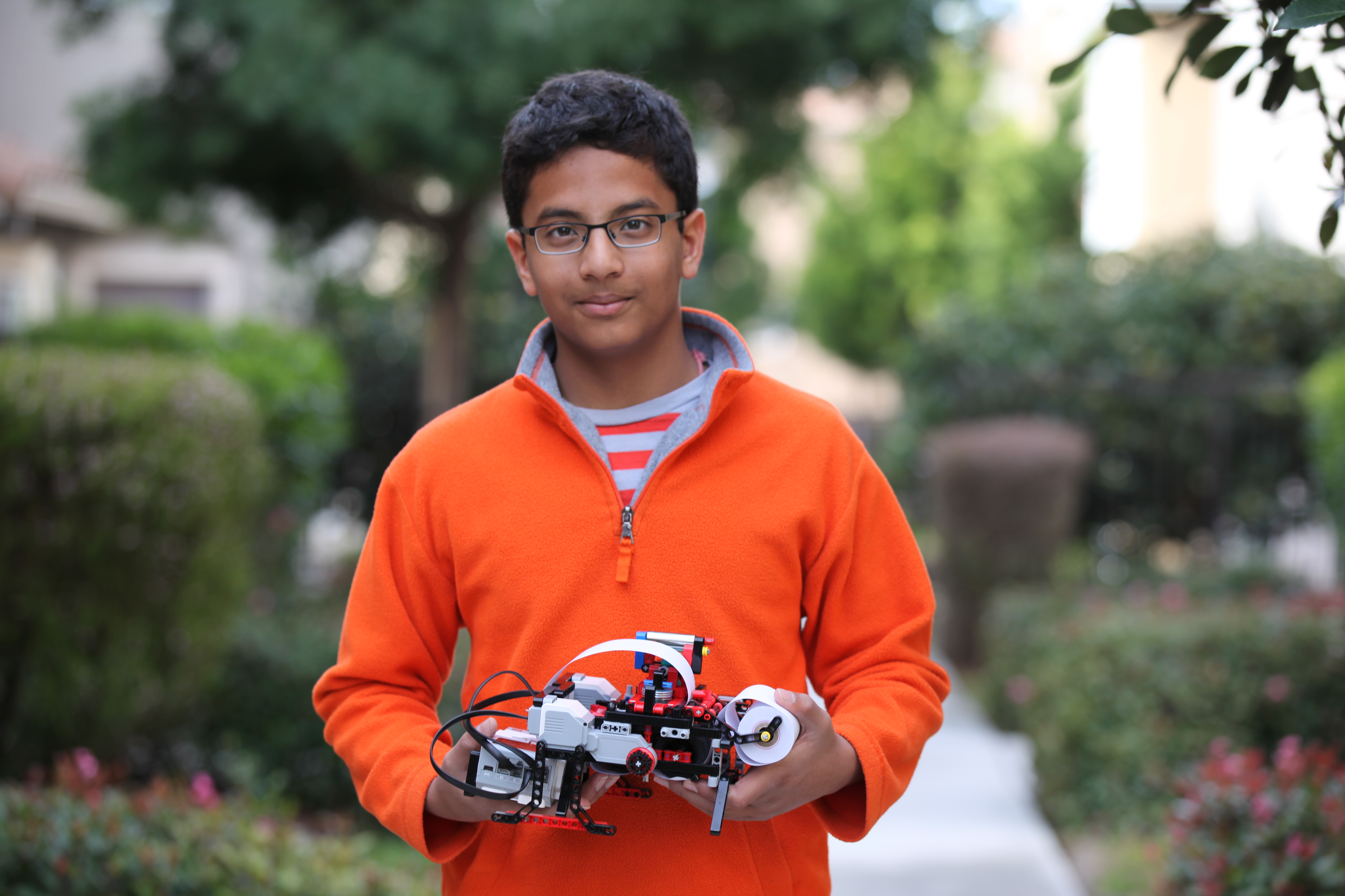 This is the picture of Shubham Banerjee holding Braigo, The Braille printer he invented from Lego